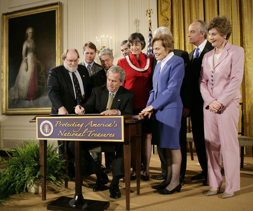 President George W. Bush signs a proclamation to create the Northwestern Hawaiian Islands Marine National Monument at a ceremony Wednesay, June 15, 2006, in the East Room of the White House. The proclamation will bring nearly 140,000 square miles of the Northwestern Hawaiian Island Coral Reef Ecosystem under the nation's highest form of marine environmental protection. Mrs. Laura Bush joined the President and distinguished guests on stage, from left to right, U.S. Rep. Neil Abercrombie, D-Hawaii; U.S. Rep. Ed Case, D-Hawaii; U.S. Sen. Daniel Akaka, D-Hawaii; U.S. Commerce Secretary Carlos Gutierrez; Hawaii Gov. Linda Lingle; documentary filmmaker Jean-Michel Cousteau; marine biologist Sylvia Earle and U.S. Interior Secretary Dirk Kempthorne. Hanging on the wall in the background is the 1878 posthumous portrait of Martha Washington by Eliphalet Frazer Andrews.